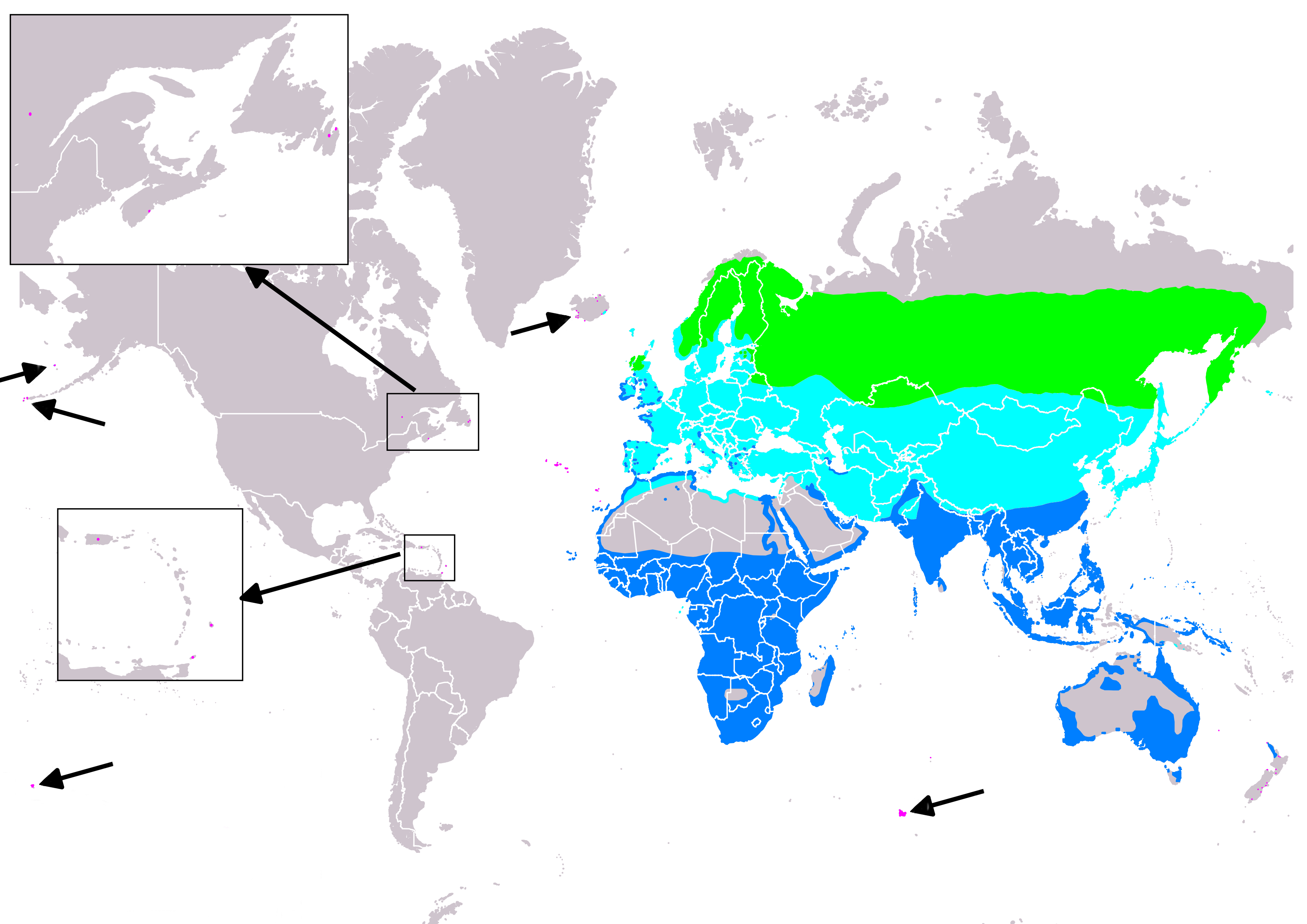 Map of Common Greenshank Tringa nebularia according to IUCN version 2018.2 , Legend: Extant, breeding (#00FF00), Extant, passage (#00FFFF), Extant, non-breeding (#007FFF), Extant & Vagrant (seasonality uncertain) (#FF00FF)